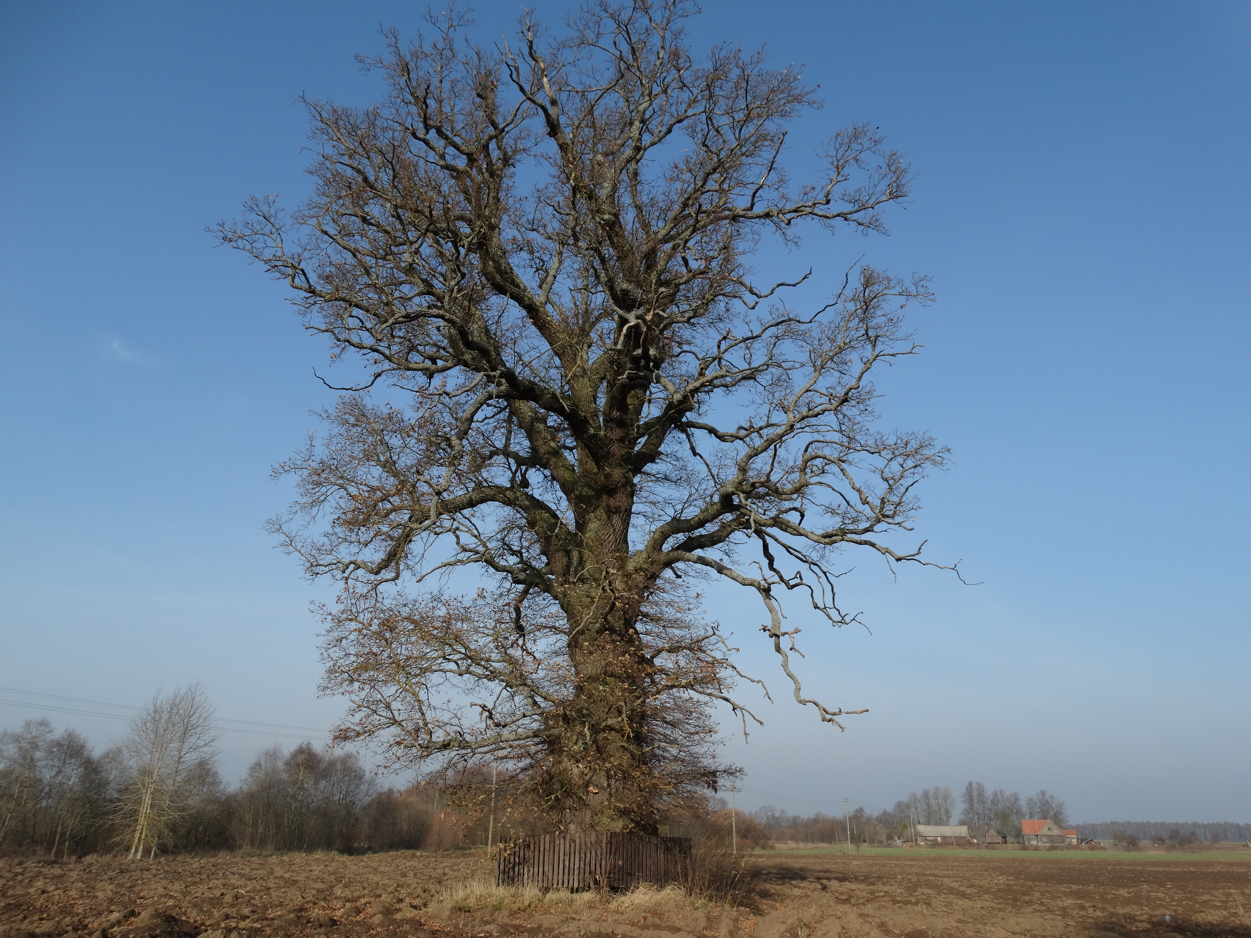 Oak tree in Moliūnai, Pasvalys District, Lithuania